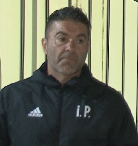 Former Bulgarian football goalkeeper Ivaylo Petrov